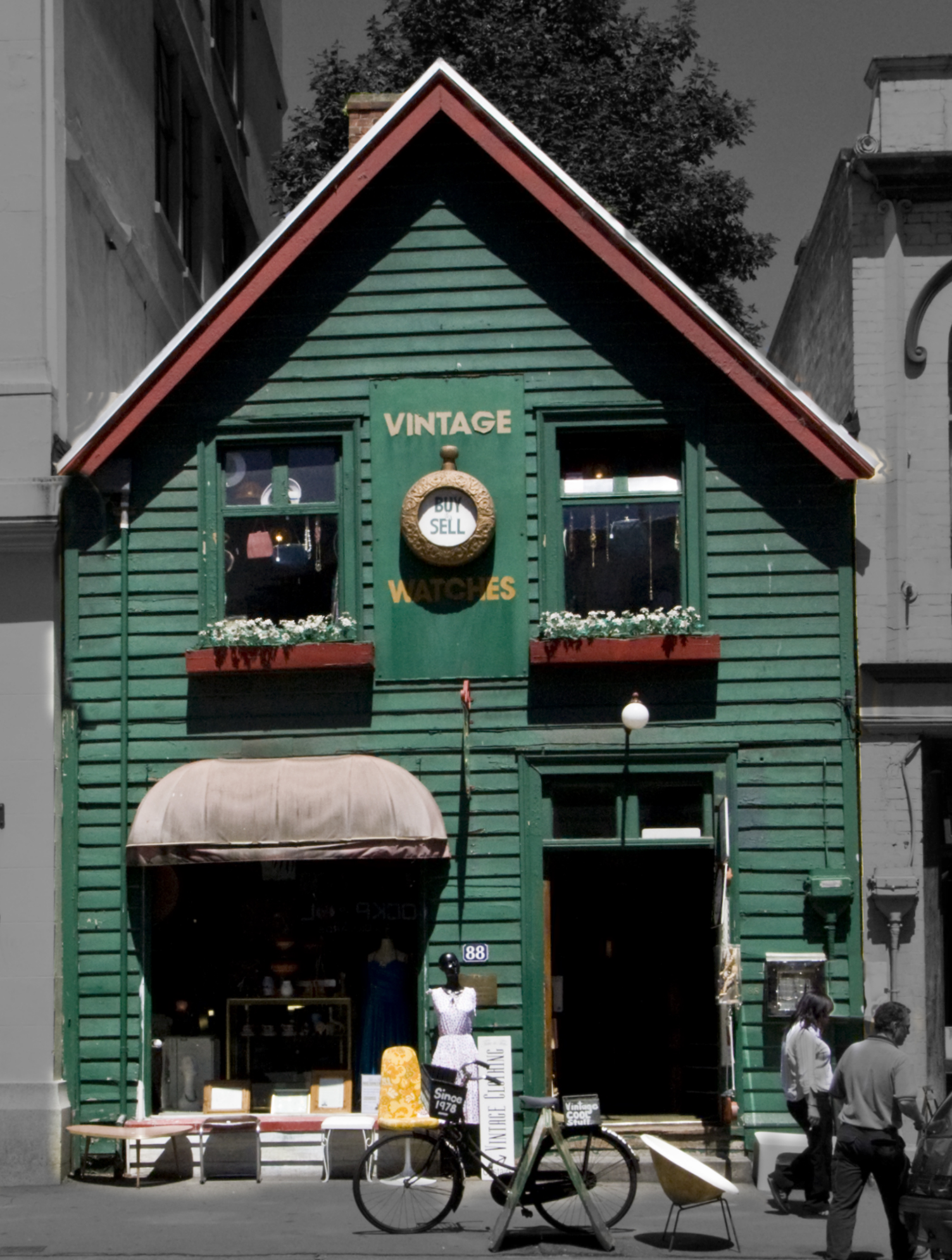 Shand's Emporium was erected around 1860. NZHPT #307.